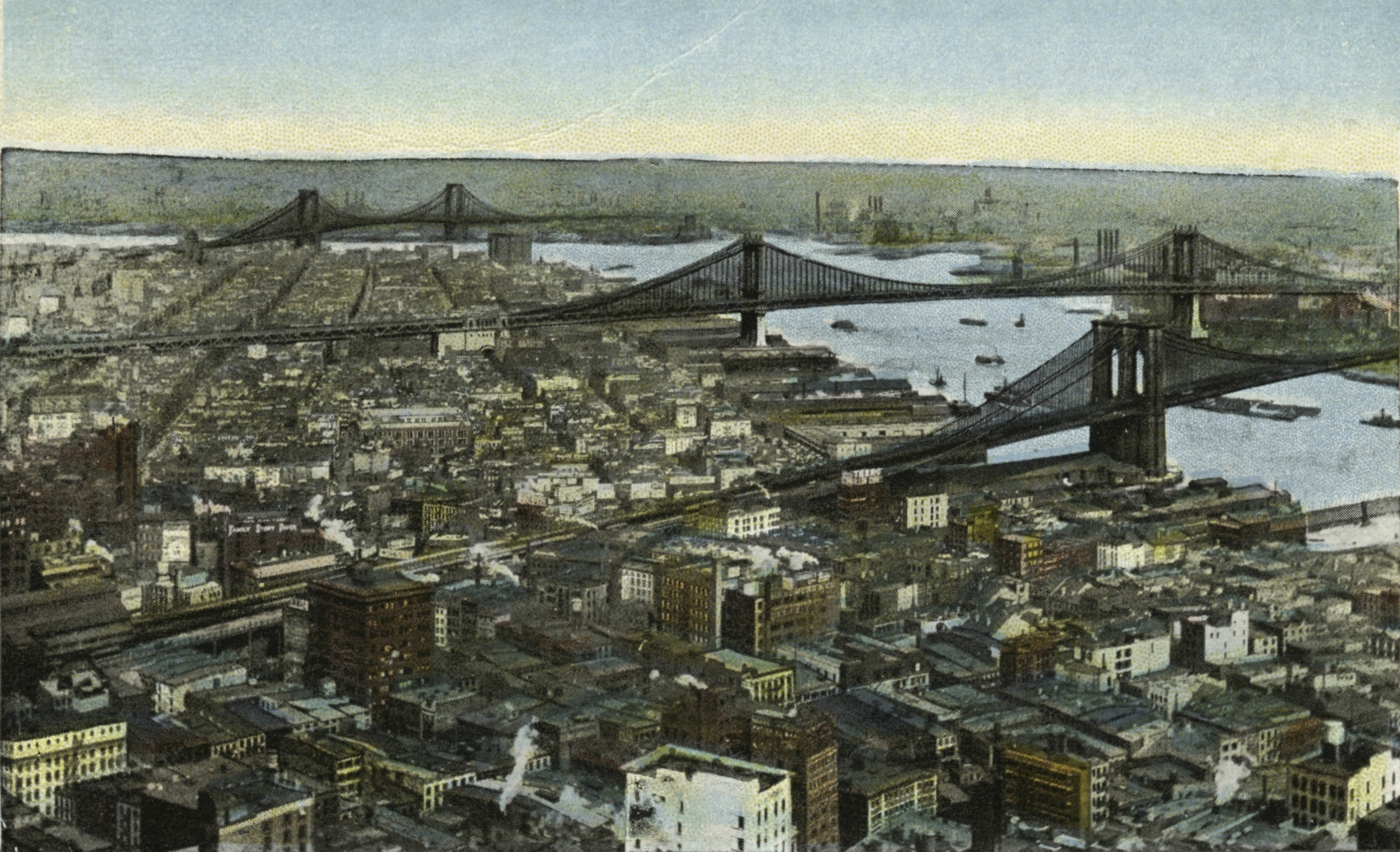 The Miriam and Ira D. Wallach Division of Art, Prints and Photographs: Picture Collection, The New York Public Library. "Bird's-eye view from Singer Tower, New York City" The New York Public Library Digital Collections. 1915 - 1930. Image id. 836099